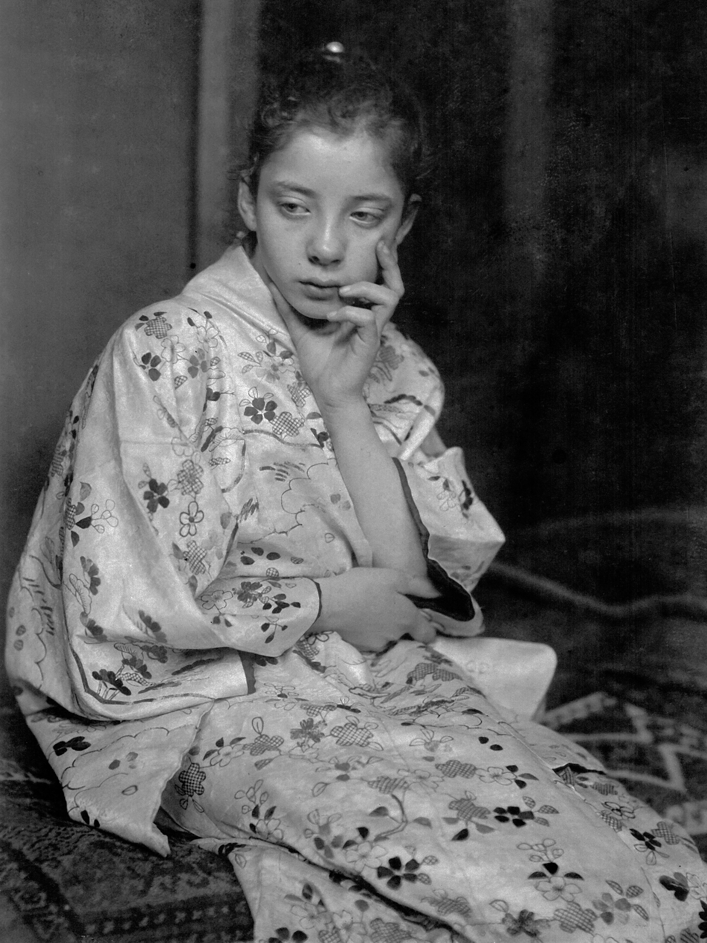 Geesje Kwak Warning: This image has been digitally enhanced and may no longer accurately represent the original.